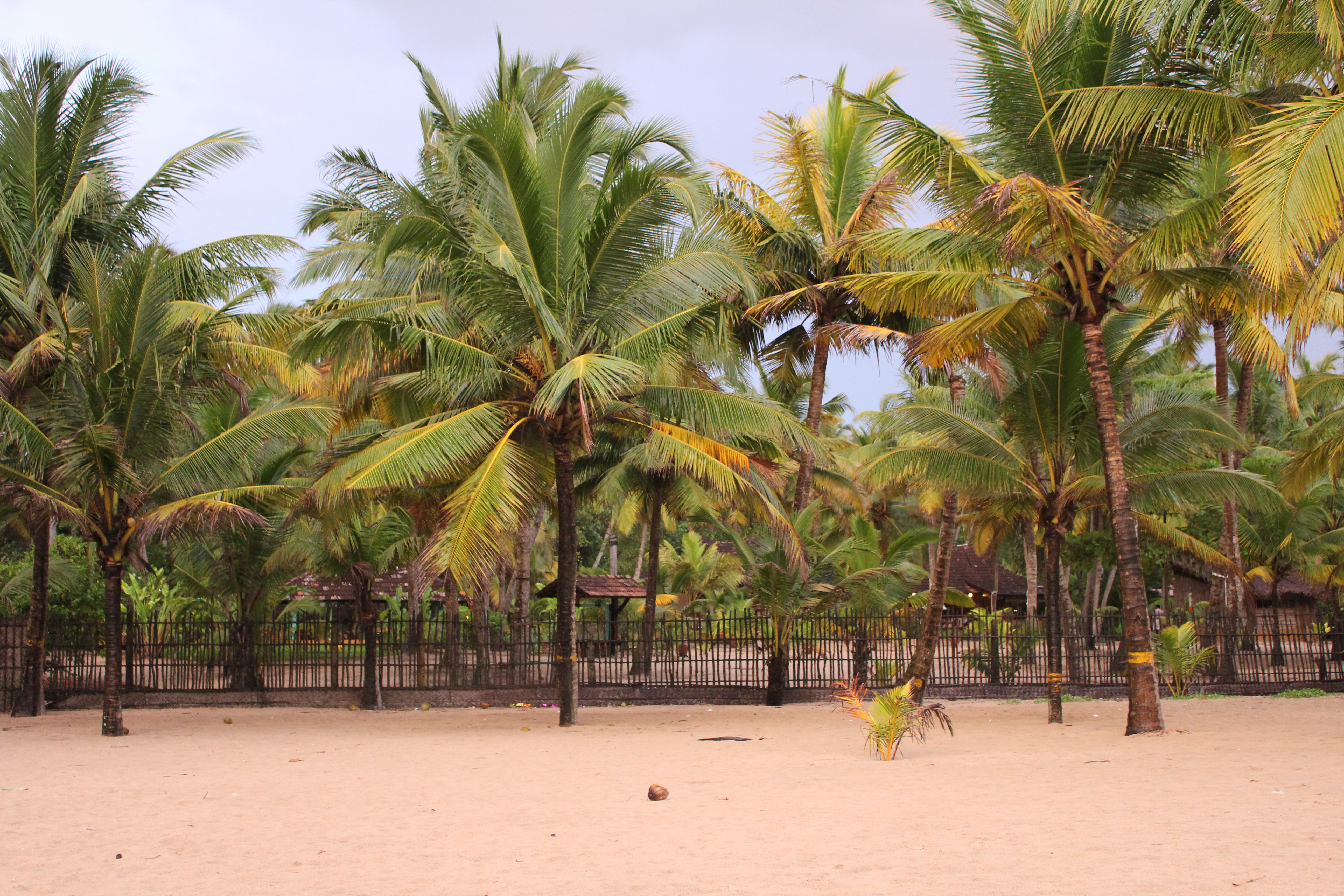 Vegetation at the marari beach shoreline